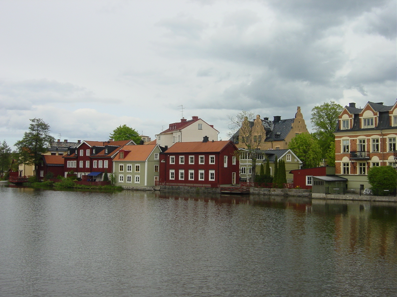 Eskistunaån Eskilstuna: From the new pedestrian bridge over the Eskilstuna river by the Fors Cruch facing north towards Köpmangatans riverside, town center is to the left